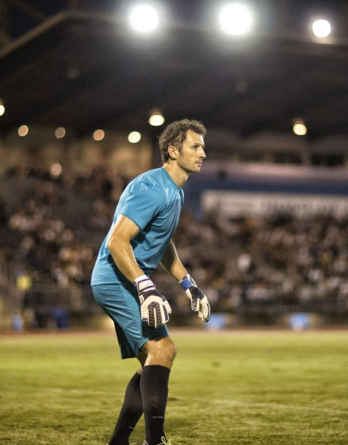 Noah Pawlowski in goal